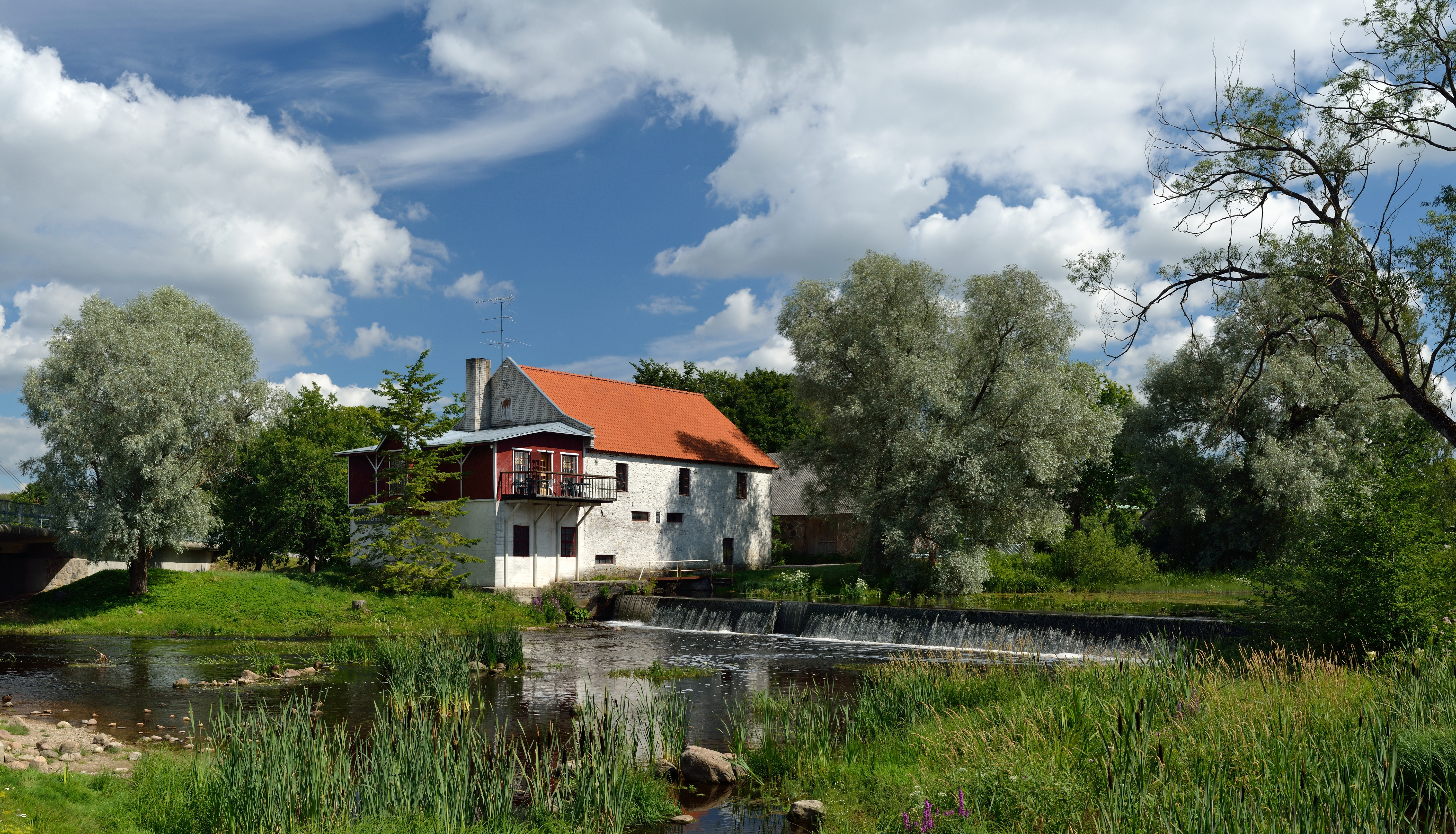 Kohila watermill with dam on Keila river, built in 1875. Today used as a tavern.